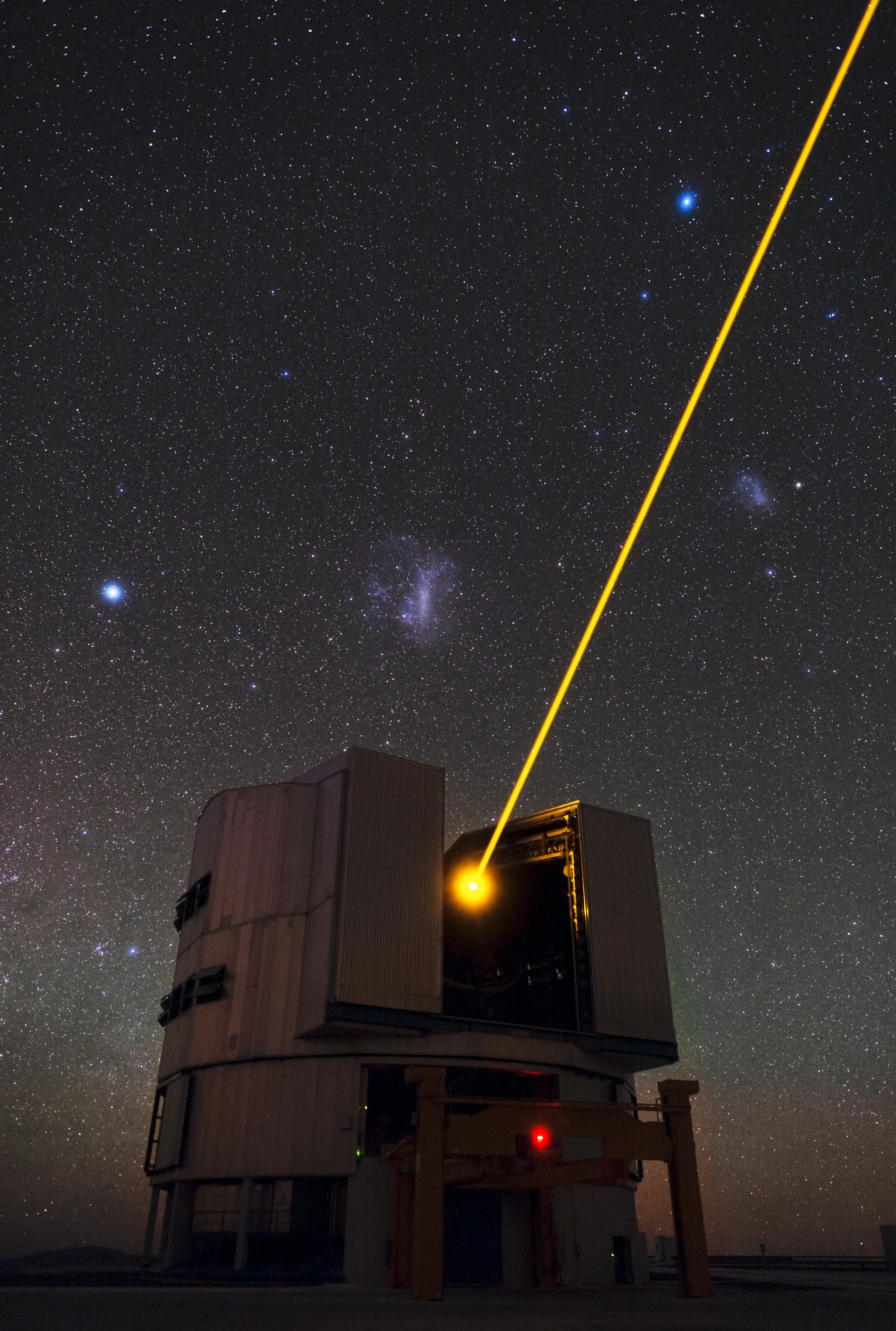 One of the major enemies of astronomers is the Earth’s atmosphere, which makes celestial objects appear blurry when observed by ground-based telescopes. To counteract this, astronomers use a technique called adaptive optics, in which computer-controlled deformable mirrors are adjusted hundreds of times per second to correct for the distortion of the atmosphere. This spectacular image shows Yepun,[1] the fourth 8.2-metre Unit Telescope of ESO’s Very Large Telescope (VLT) facility, launching a powerful yellow laser beam into the sky. The beam creates a glowing spot — an artificial star — in the Earth’s atmosphere by exciting a layer of sodium atoms at an altitude of 90 km. This Laser Guide Star (LGS) is part of the VLT’s adaptive optics system. The light coming back from the artificial star is used as a reference to control the deformable mirrors and remove the effects of atmospheric distortions, producing astronomical images almost as sharp as if the telescope were in space. Yepun’s laser is not the only thing glowing brightly in the sky. The Large and Small Magellanic Clouds can be seen, to the left and to the right of the laser beam, respectively. These nearby irregular dwarf galaxies are conspicuous objects in the southern hemisphere, and can be easily observed with the unaided eye. The prominent bright star to the left of the Large Magellanic Cloud is Canopus, the brightest star in the constellation Carina (The Keel), while the one towards the top-right of the image is Achernar, the brightest in the constellation Eridanus (The River). This image was taken by Babak Tafreshi, an ESO Photo Ambassador. ↑ The VLT’s four Unit Telescopes are named after celestial objects in the indigenous Mapuche language, Mapudungun. The Unit Telescopes (UTs) are named: Antu (UT1, the Sun); Kueyen (UT2, the Moon); Melipal (UT3, the Southern Cross); and Yepun (UT4, Venus).